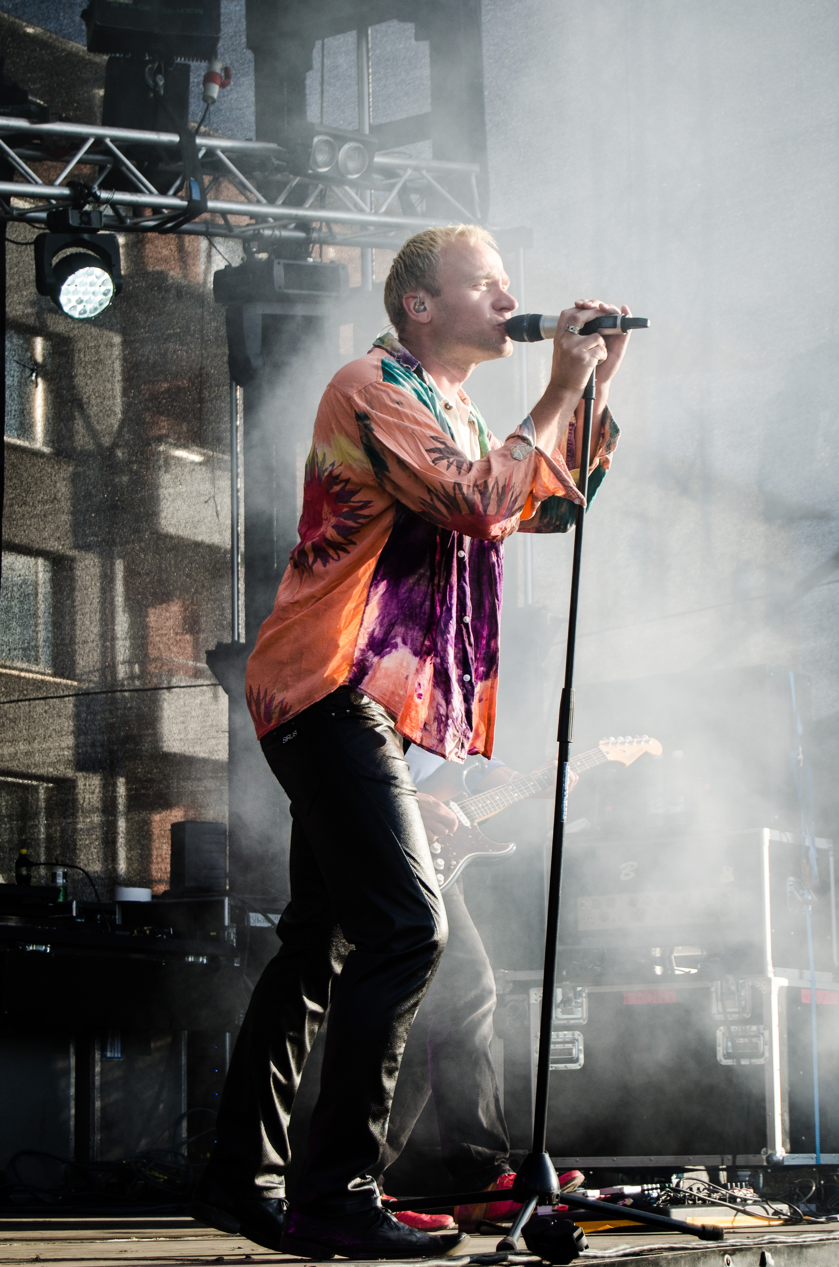 Neljä Ruusua performing at Lappeenrannan Yöt in July 2013